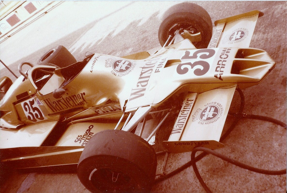 test goodyear 78 the riccardo patrese car